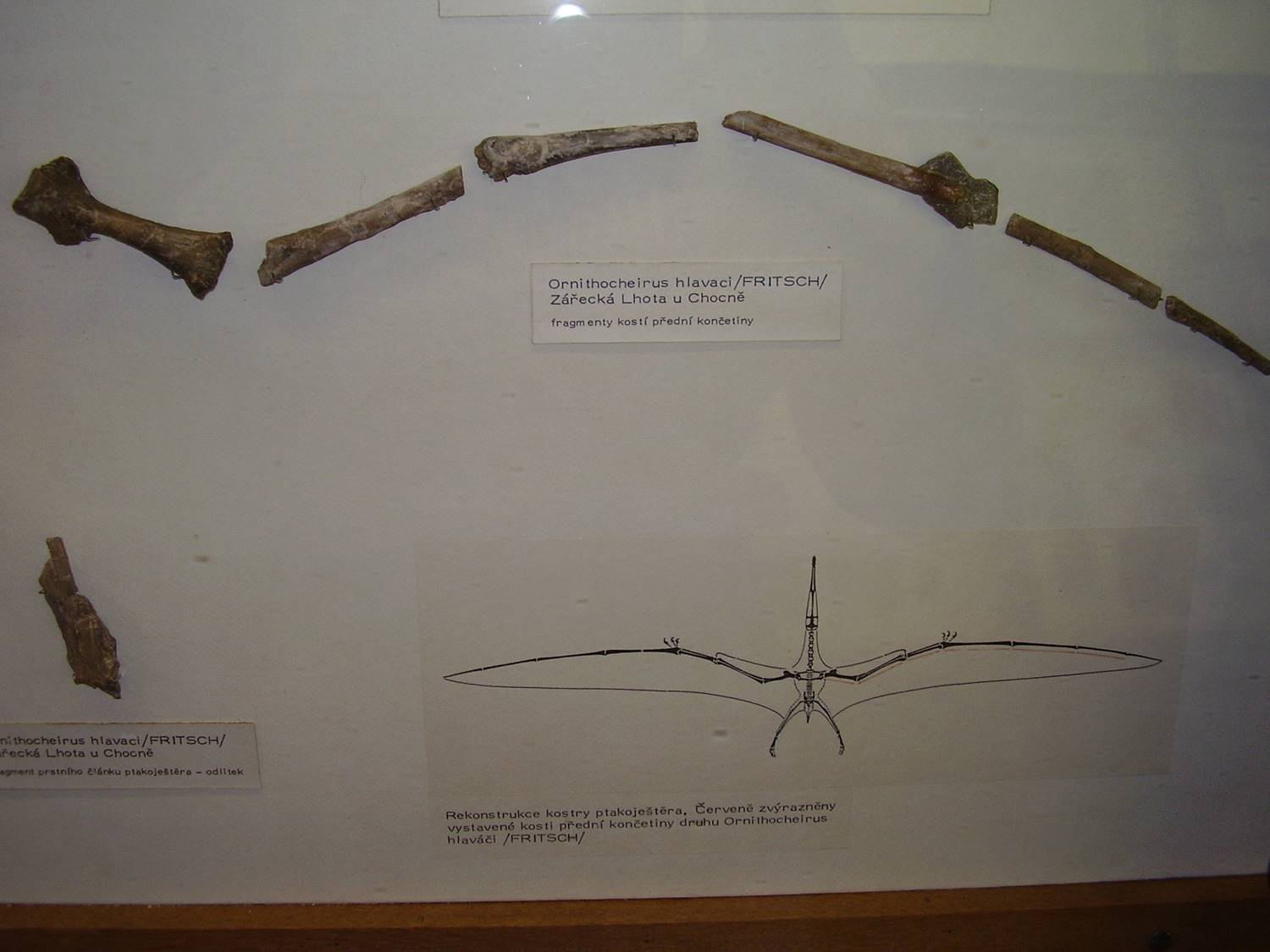 Partial wing of a czech pterosaur Cretornis hlavaci, discovered in 1880 near Choceň. National Museum in Prague.